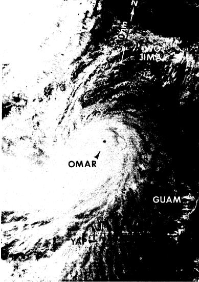 This image shows Typhoon Omar with winds of 140 mph in the Western Pacific on August 31 at 0535 UTC.